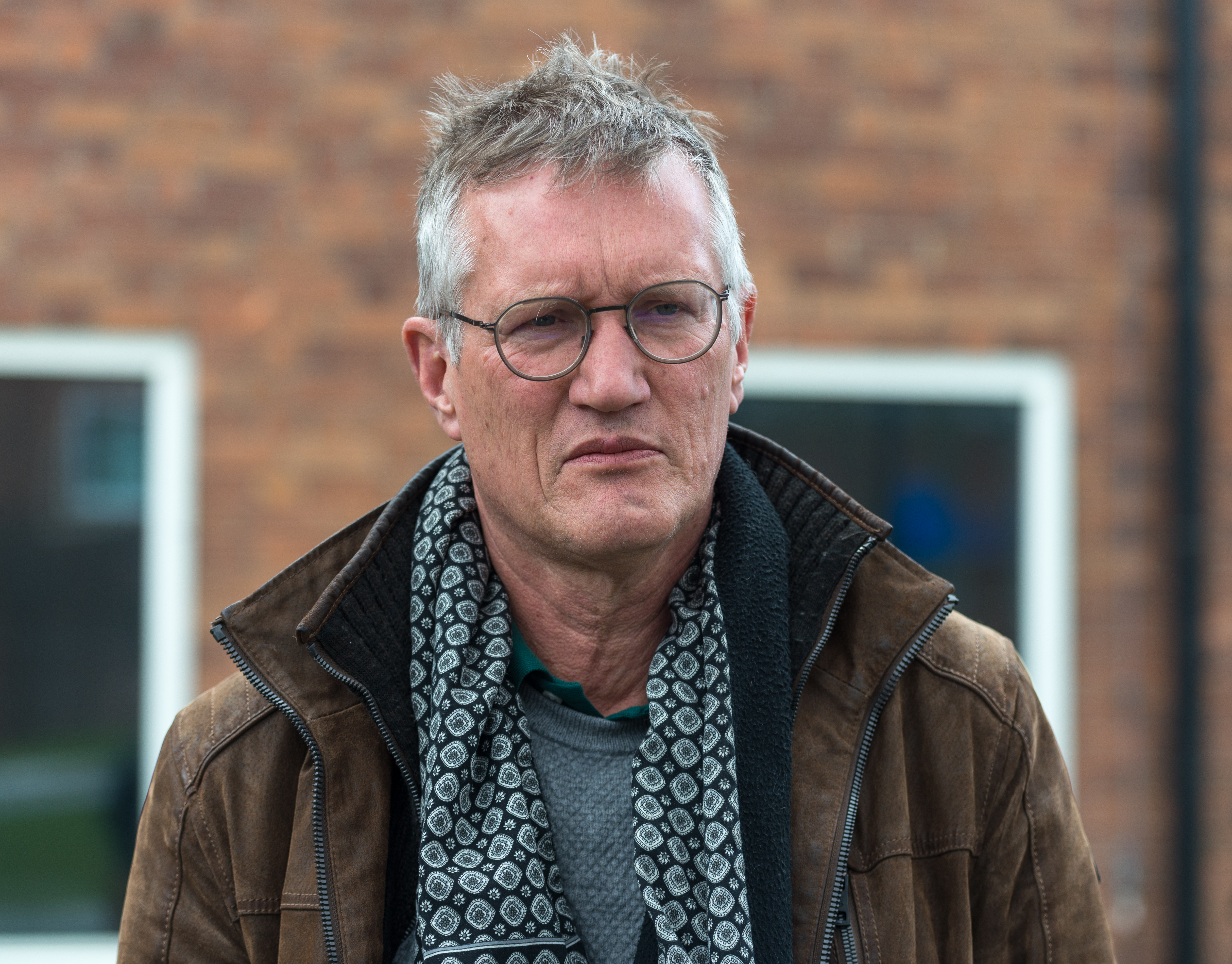 Anders Tegnell during the daily press conference outside the Karolinska Institute in Stockholm, Sweden.